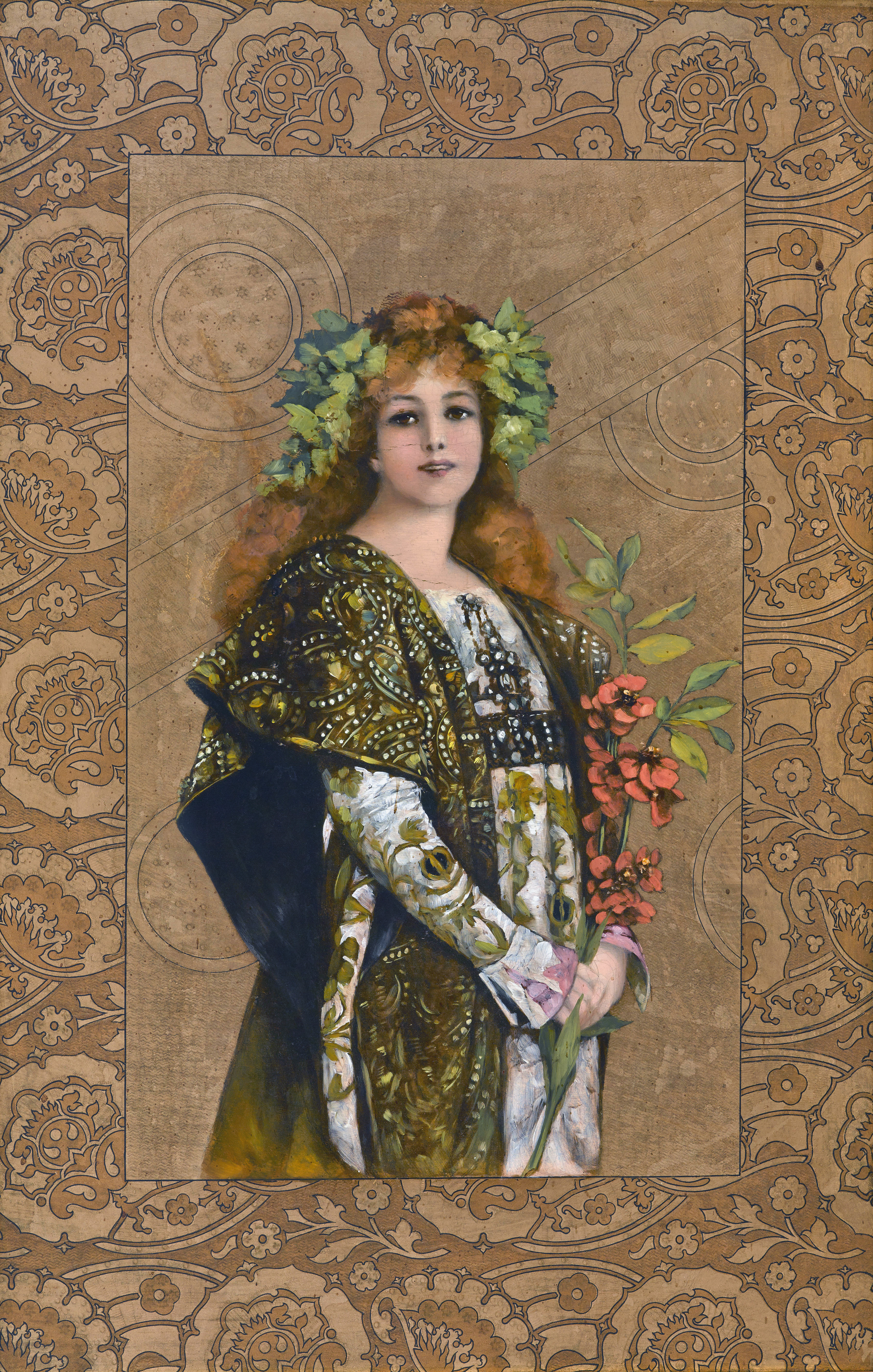 Sarah Bernhardt in Gismonda oil and gold ground on panel 56 x 36.2 cm